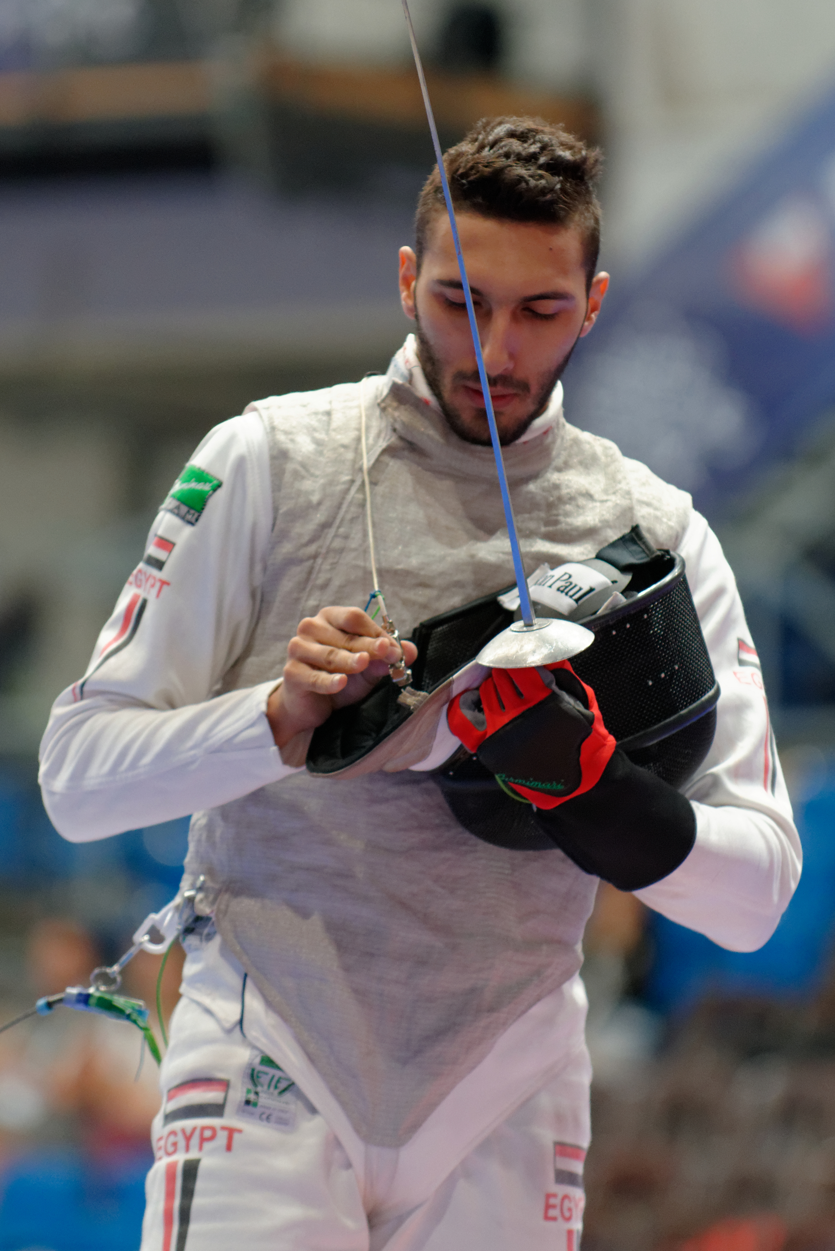 Egypt's Alaaeldin Abouelkassem at the men's team foil event of the 2013 World Fencing Championships 2013 at Syma Hall in Budapest, 12 August 2013.